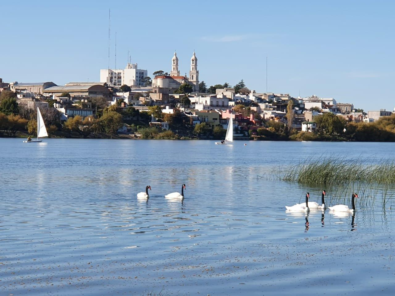 viedma water sports